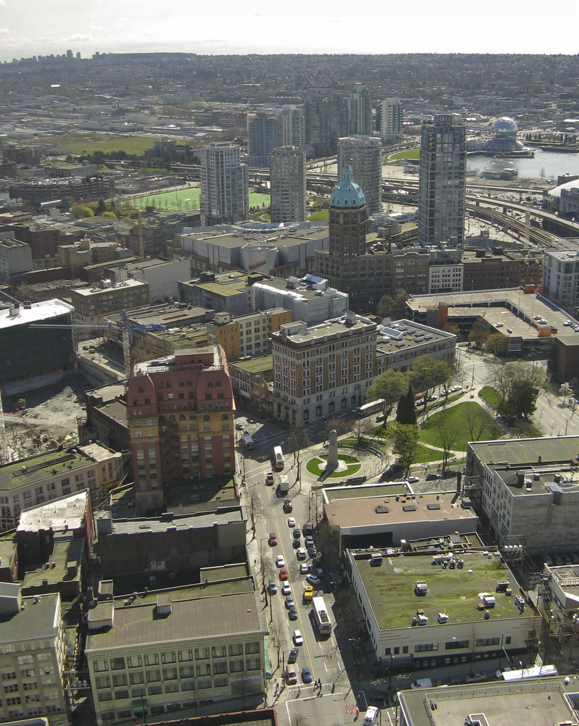 Victory Square from Harbour Centre Lookout.